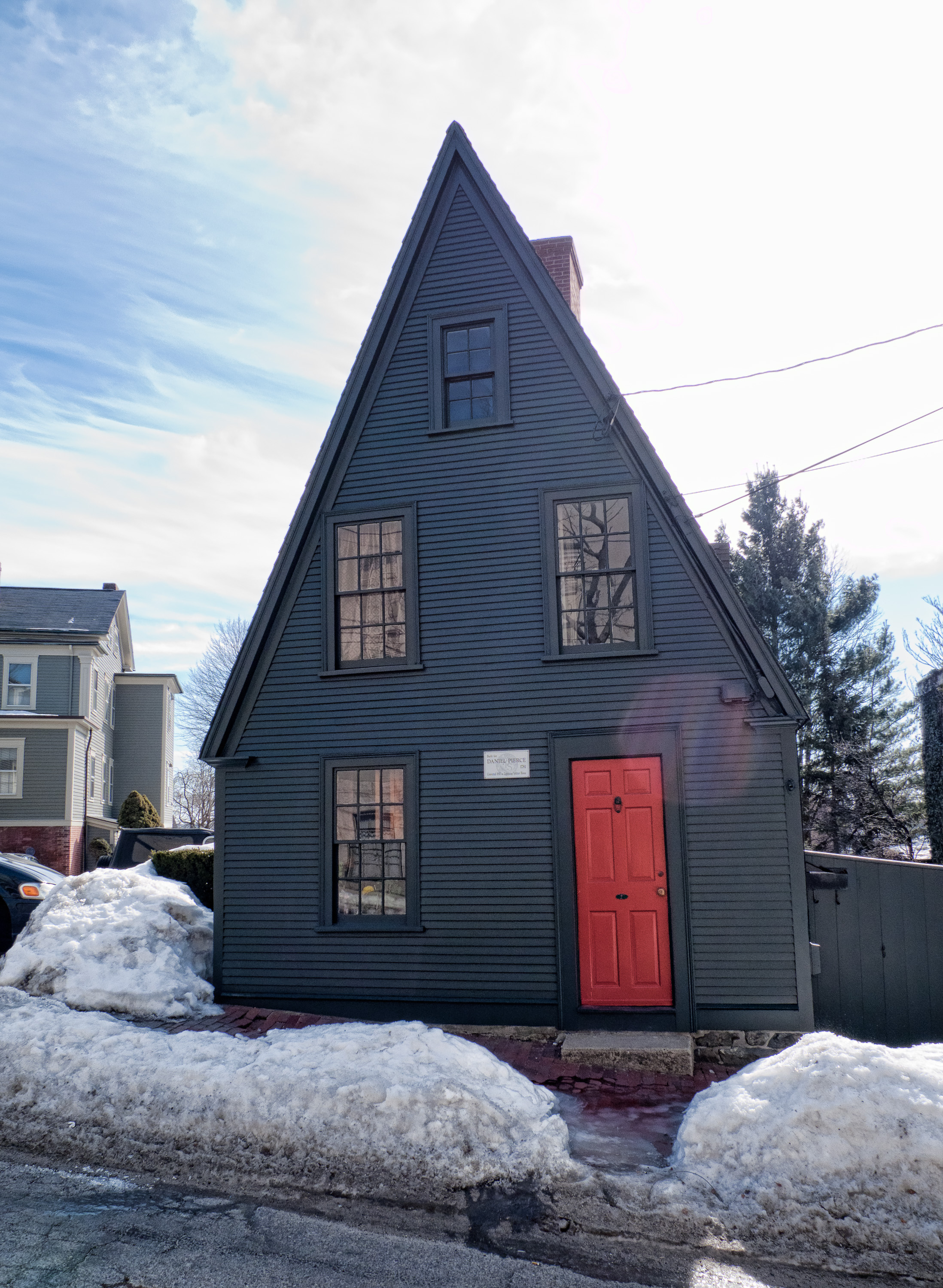 Daniel Pearce House (c1781) at 53 Transit Street in Providence, noted by its steep "lightning splitter" roof.